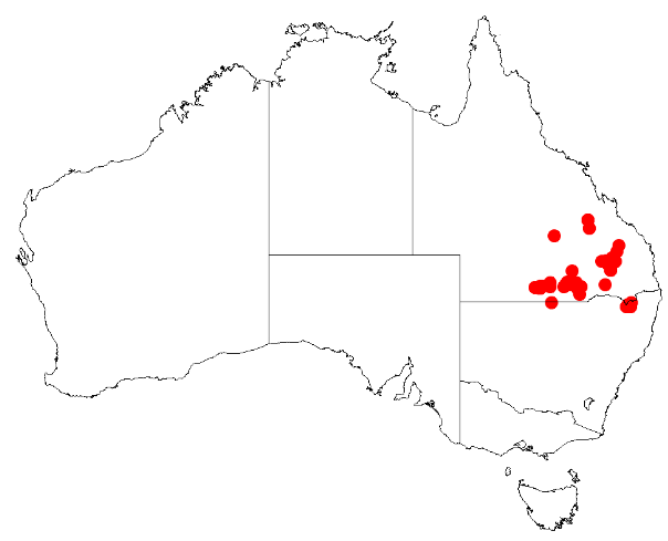 Acacia burbidgeae Occurrence data from Australasian Virtual Herbarium downloaded from on 8 December 2018